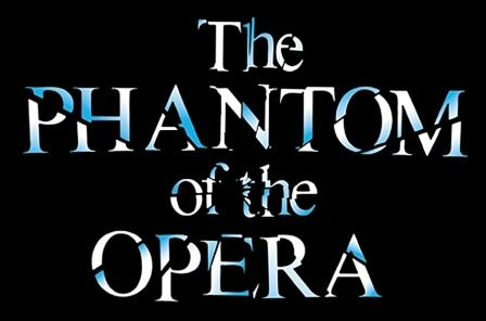 The Phantom of the Opera title card